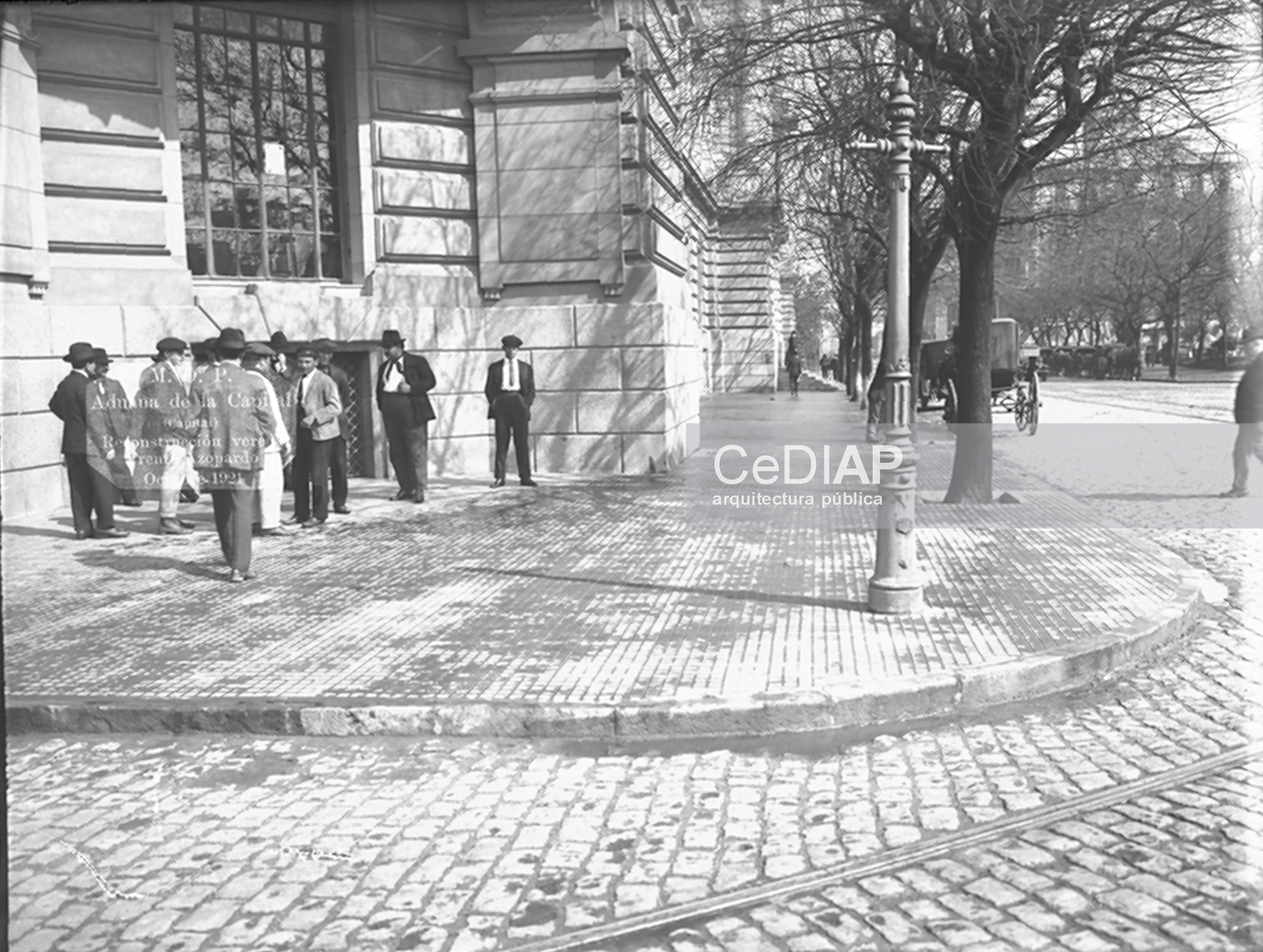 image descriptionImagen Antigua de la fachada realizada por los arquitectos originales